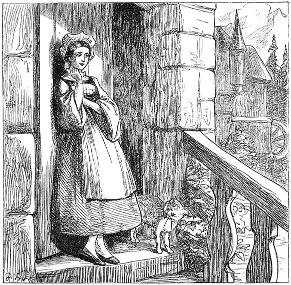 From 'Andersens Sproken en vertellingen' by Hans Christian Andersen, Titia van der Tuuk (ed.) and Simon Jacob Andriessen (trans.). Gebroeders E. & M. Cohen, Nijmegen - Arnhem. Illustrated by Alfred Walter Bayes (1832-1909) and engraved by the Dalziel Brothers (Edward Daziel, 1817-1905; George Daziel, 1815-1902).